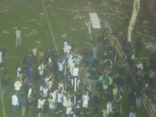 Universitario celebrating their 2008 Apertura trophy.